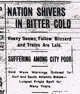 Headline from the January 13, 1912 Ypsilanti Daily Press, Ypsilanti, Michigan, describing the 1912 United States cold wave.